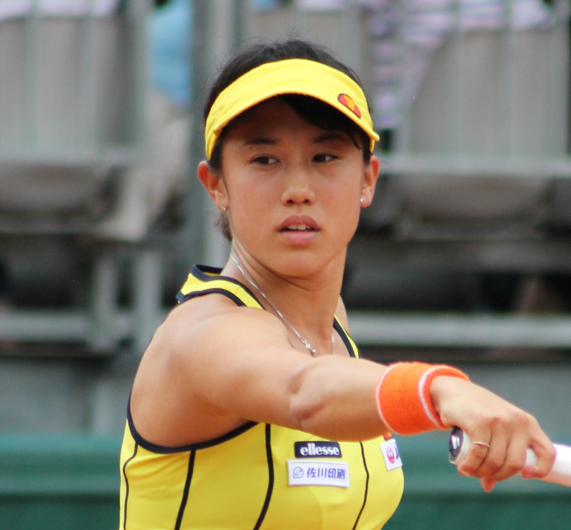 Miyu Kato at 2016 Roland Garros.